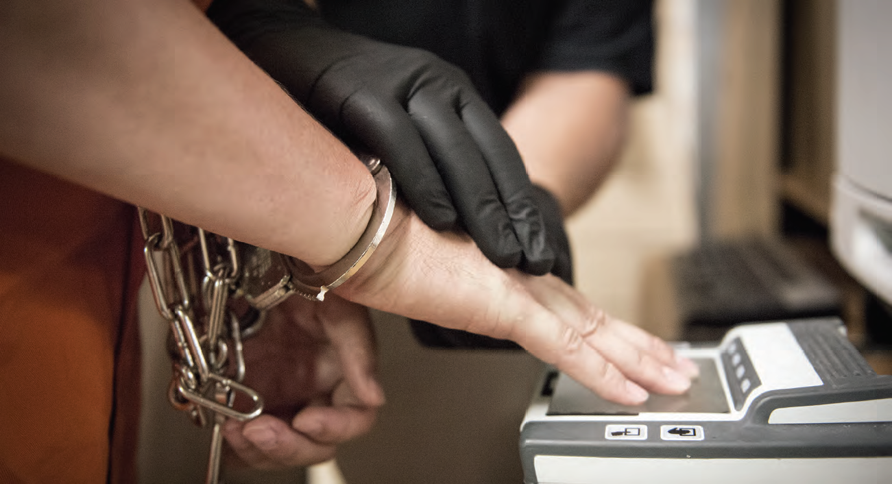 United States Marshals fingerprinting a prisoner.